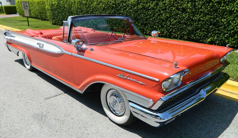 1959 Mercury Park Lane convertible, in "Canton Red", equipped with 340CI Lincoln V8. 1 out of 1257 produced.